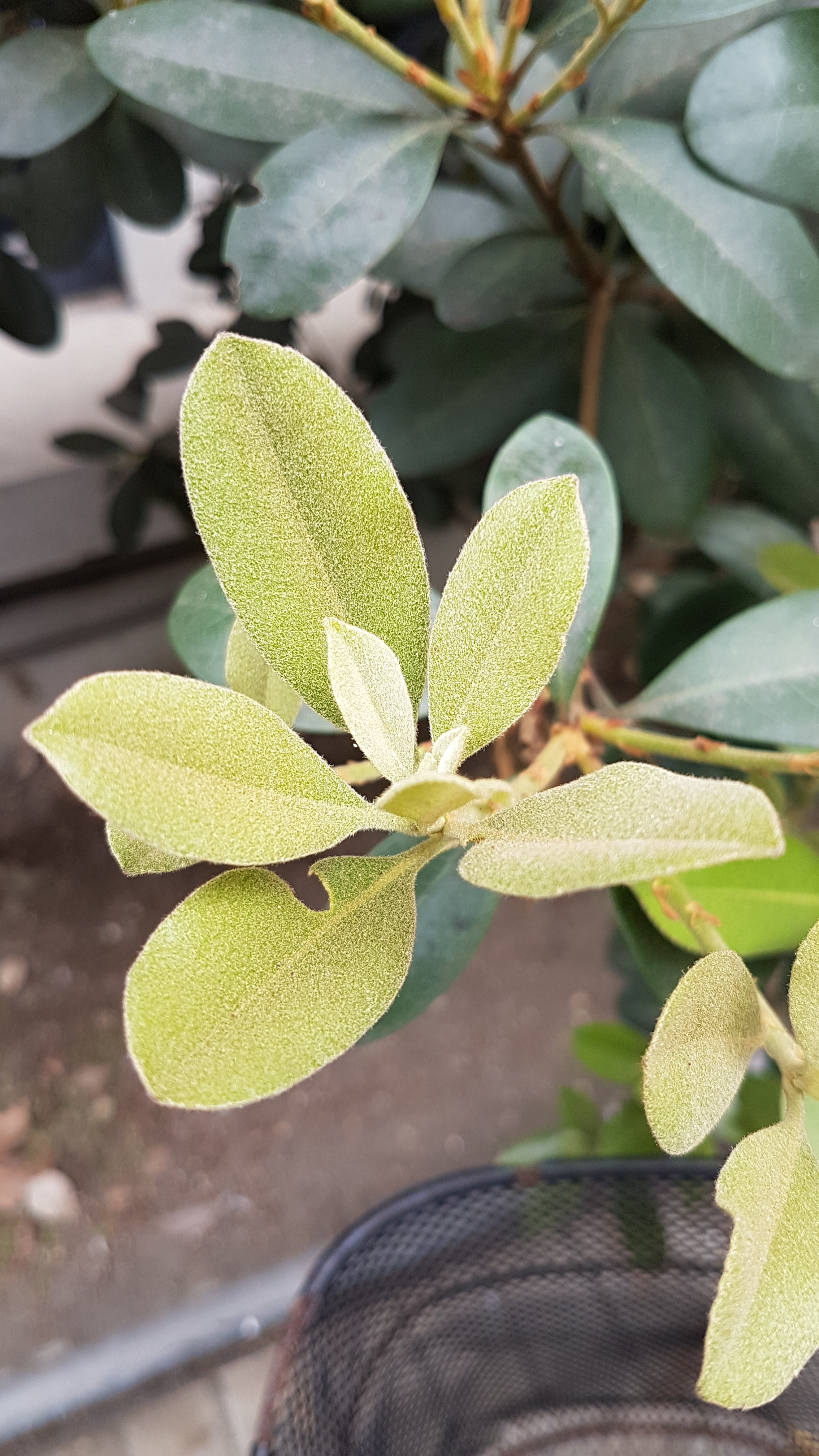 Rhaphiolepis indica var. umbellata young leaves